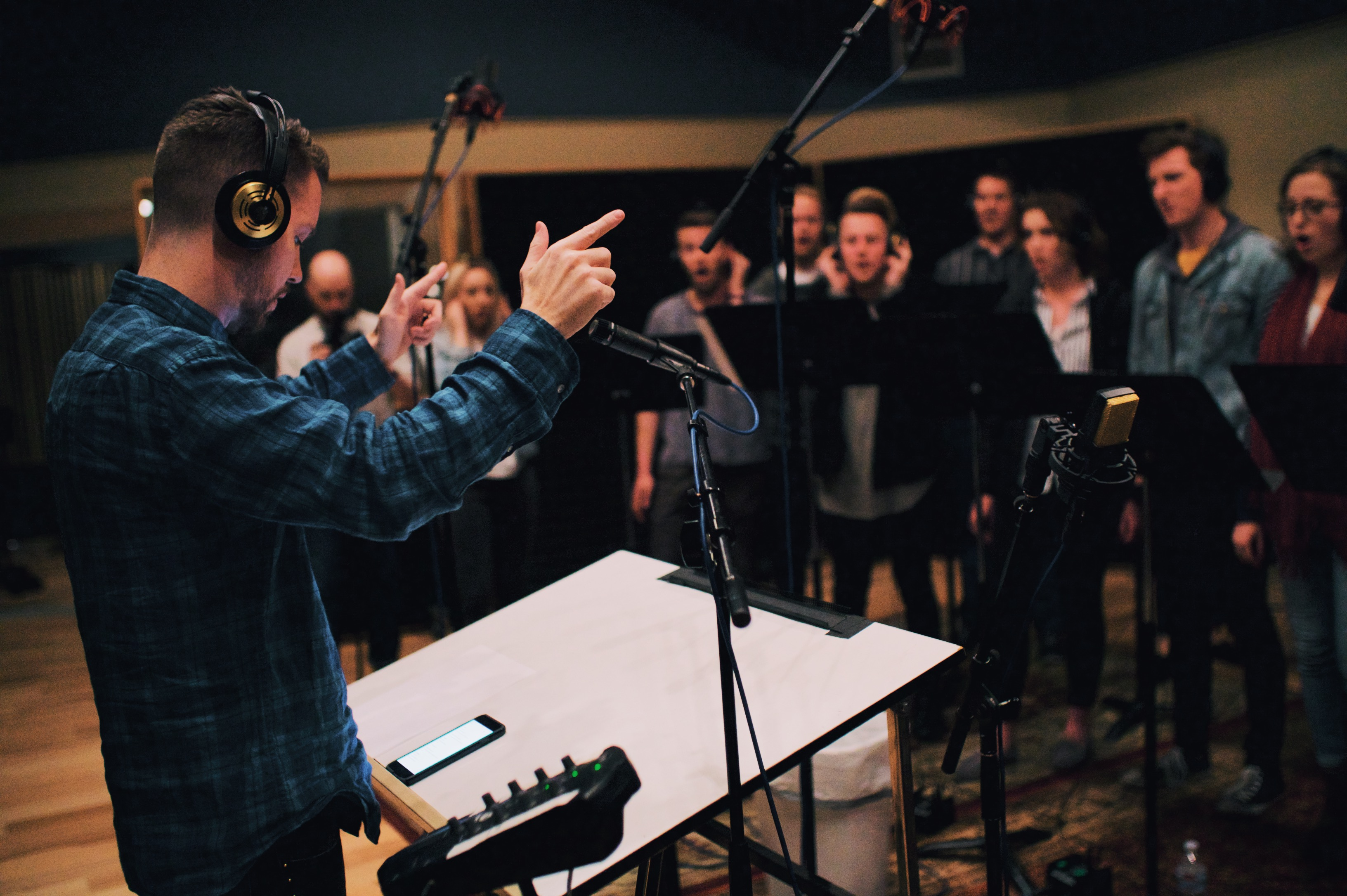 Conducting the choir for TesseracT's album "Sonder"